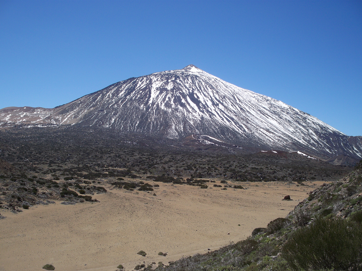 Teide seen from the north